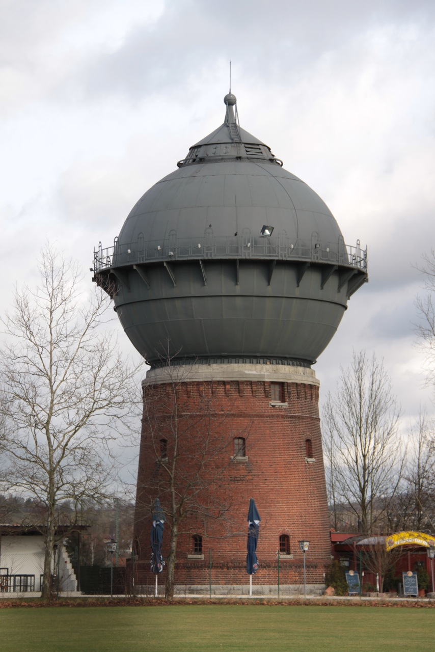 Wasserturm Bw Crailsheim